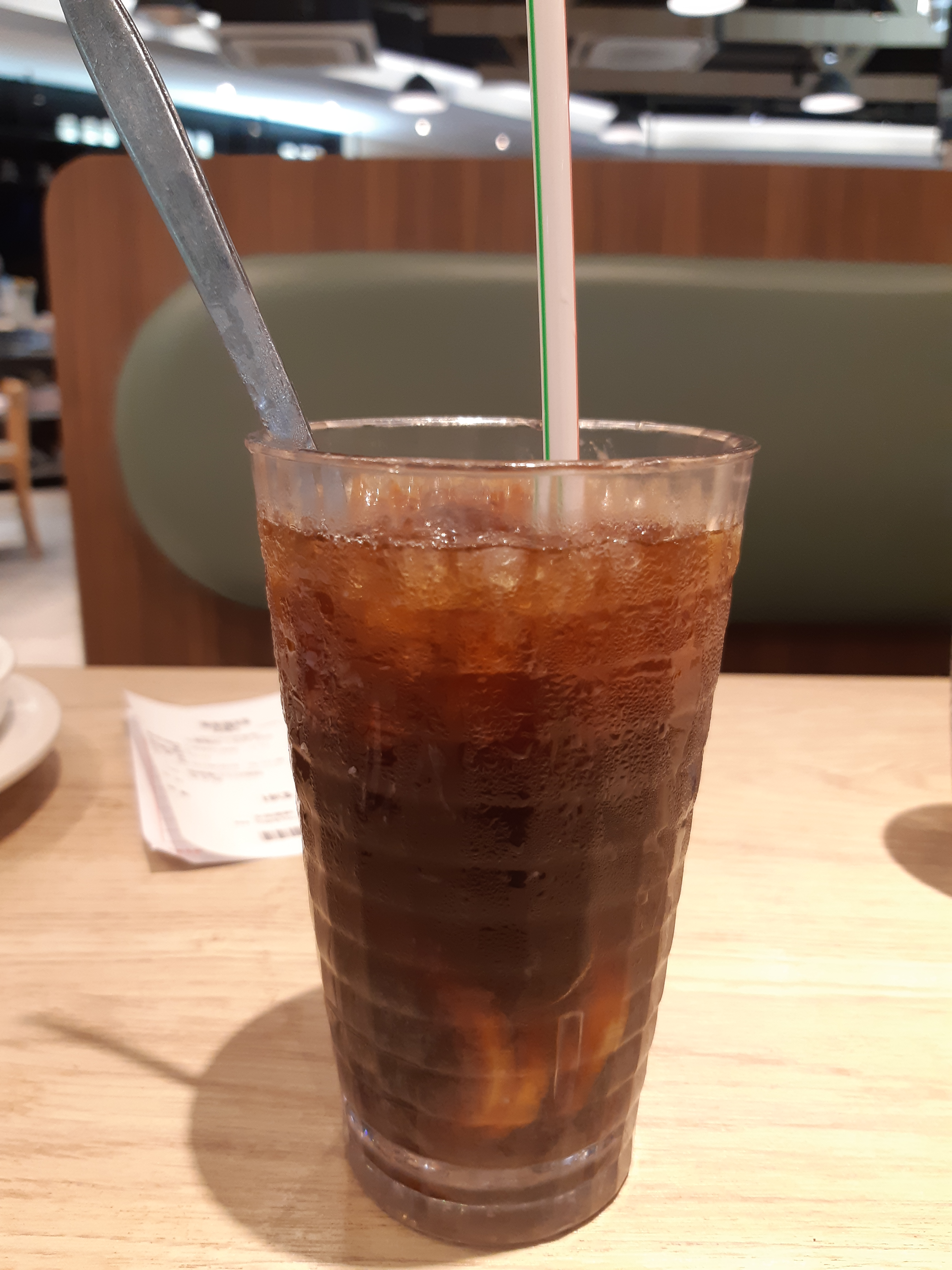 Iced lemon coffee ordered in Cha chaan teng.